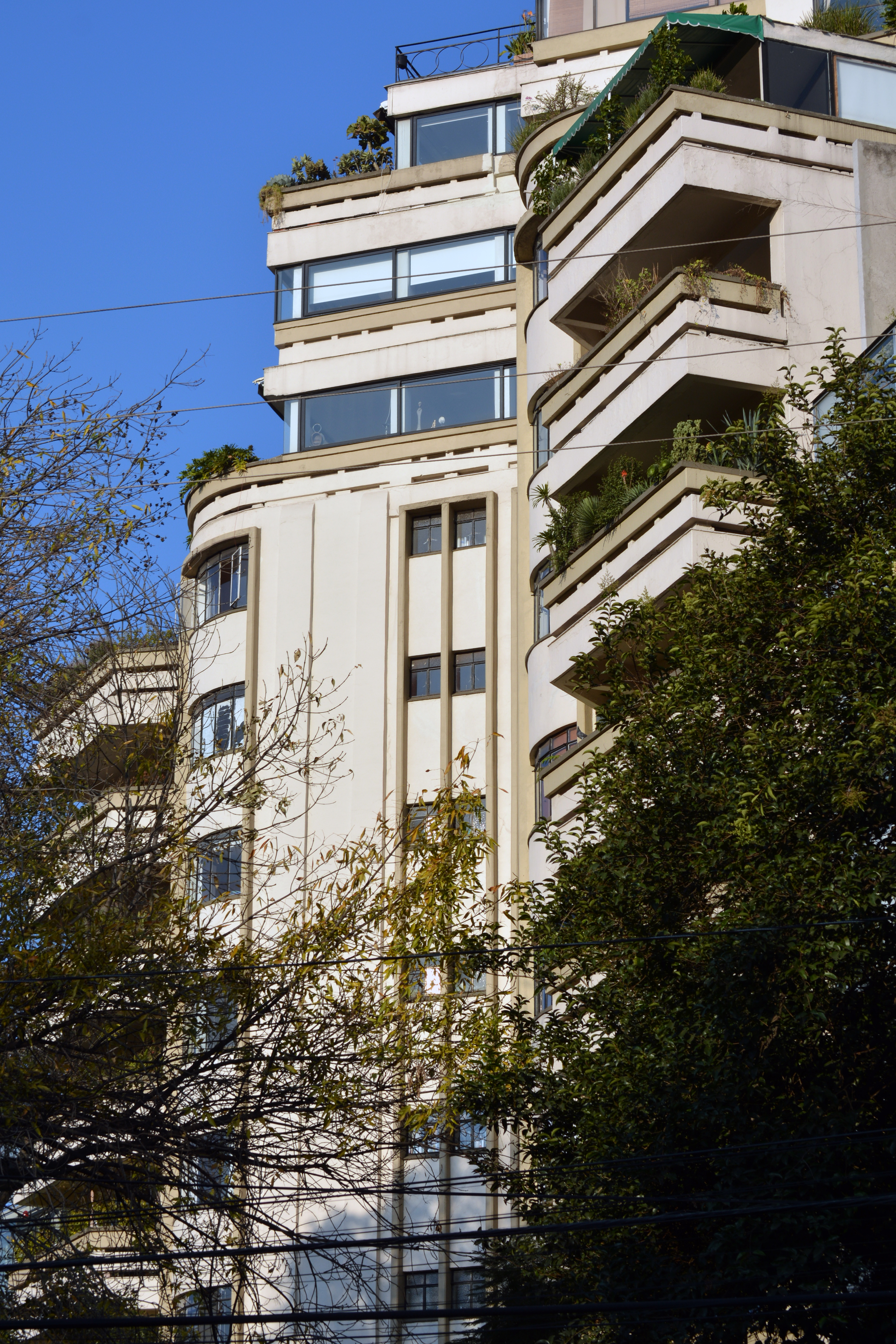 Edificio Basurto, built between 1941 to 1945 by Francisco J. Serrano. Colonia Condesa, Mexico City, Mexico.